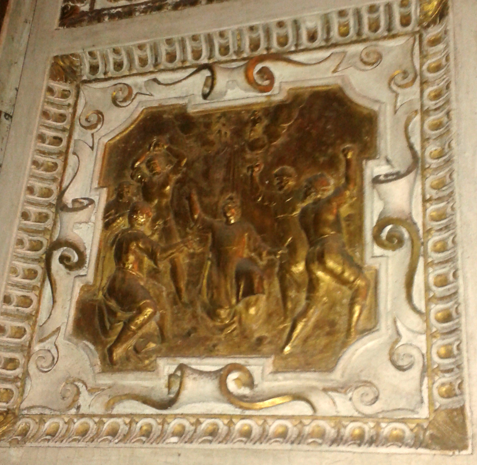 The stoning of Saint Stephen, gilded stucco panel in the Cerasi Chapel, Santa Maria del Popolo, Rome (c. 1600).